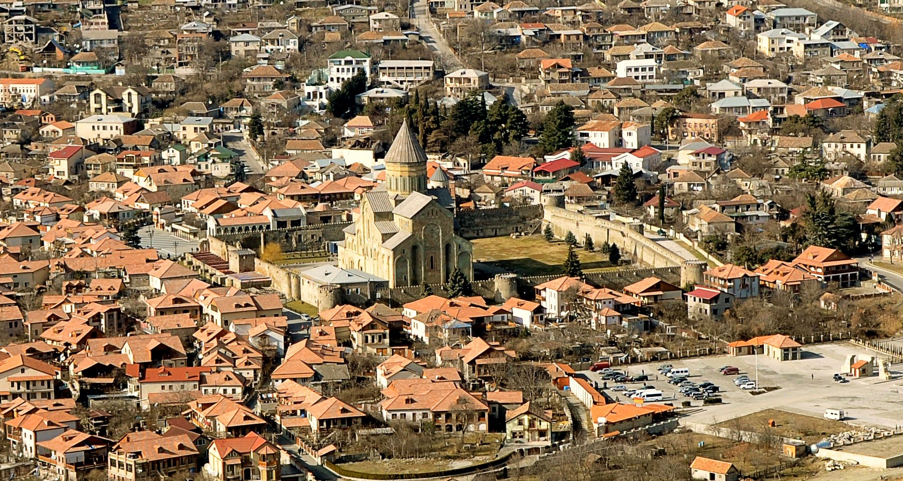 Svetitskhoveli Cathedral